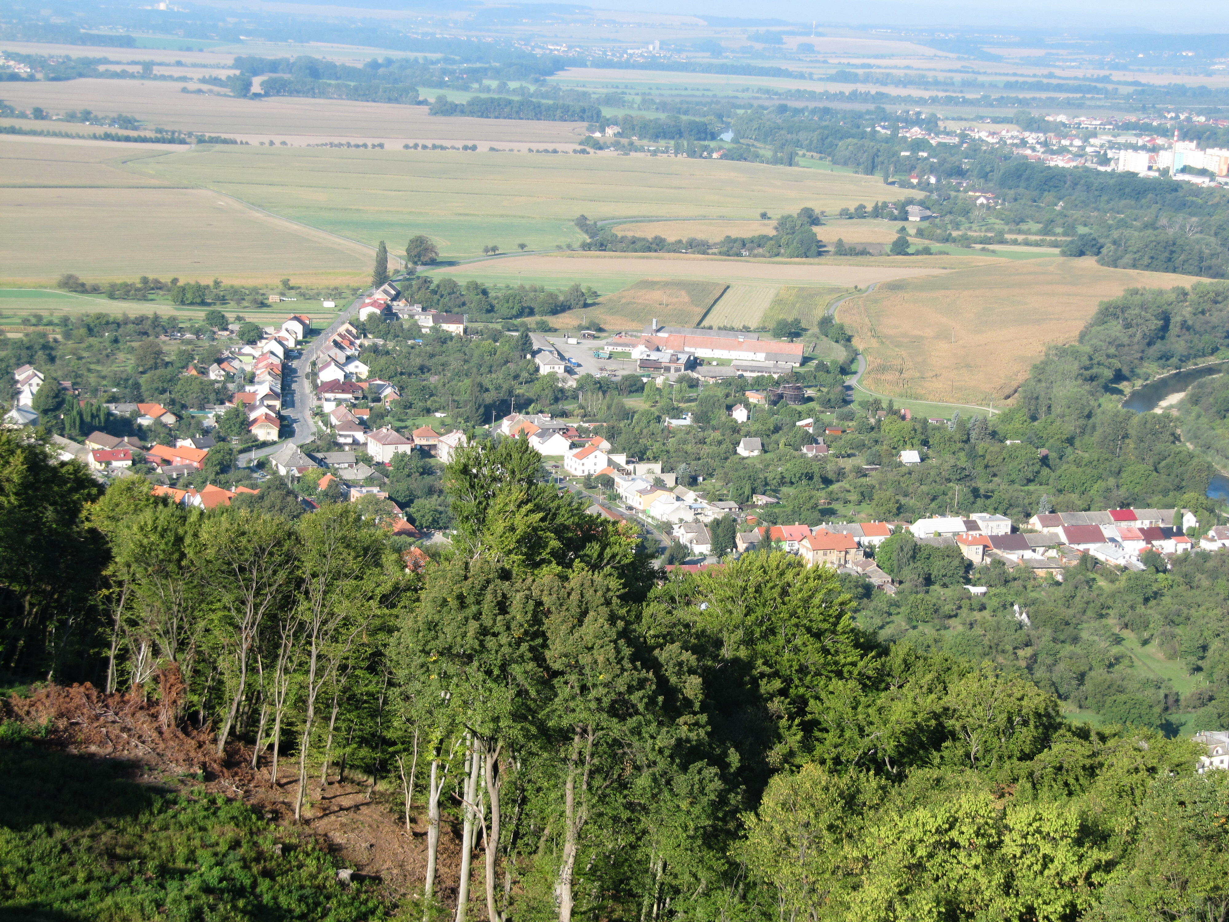 Týn nad Bečvou in Přerov District, Czech Republic. General view from Helfštýn castle.